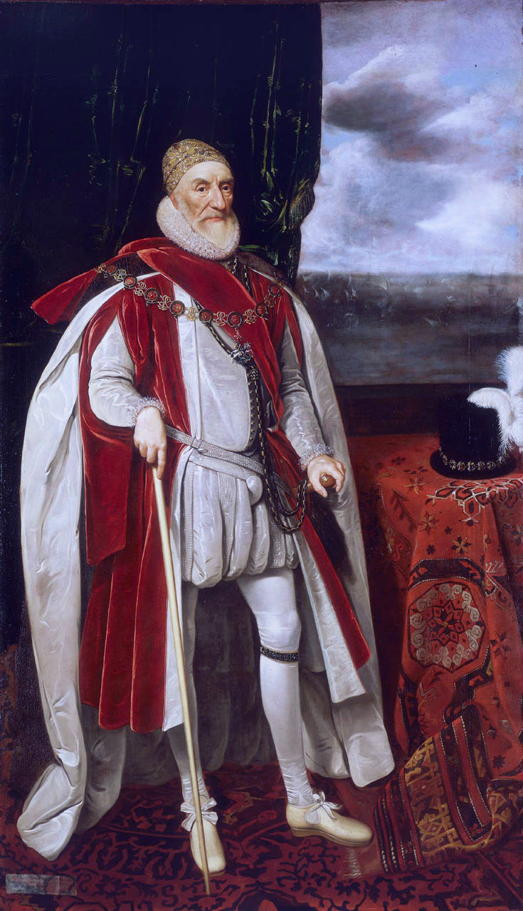 Charles Howard (1536-1624), 1st Earl of Nottingham oil on canvas 208.5 x 139.5 cm ca. 1620 inscribed b.l.: Carolus Baro. Howard de Effingham, Comes Nottingham, summus Angliae Admirallus - Ductor Classium 1588 -. Obijt anno 1624. Aetat. 88